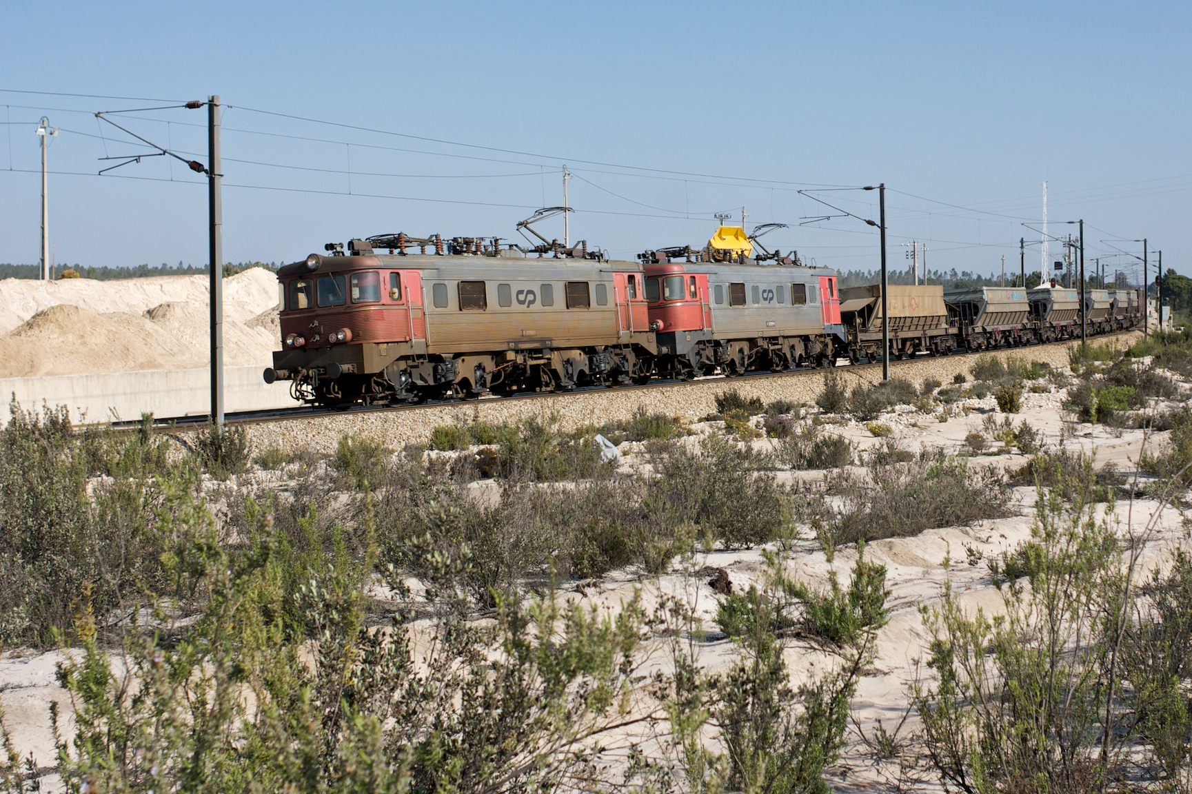 Tipo: Comboio de Transporte de Areia 96209 (material vazio) [Poceirão - Ramal Somincor] Local: Estação da Somincor [Linha do Sul, PK 92] Data e hora: 1 de Abril de 2009 [09h07] Material: Locomotivas 2560 e 2557 + 10 vagões (6 Transfesa Faoos e 4 CP Falls) esta fotografia foi publicada no . (ENG) CP 2560 and 2557 arriving at Somincor siding with sand empties. All locomotives from this series have been retired from service shortly after this date.